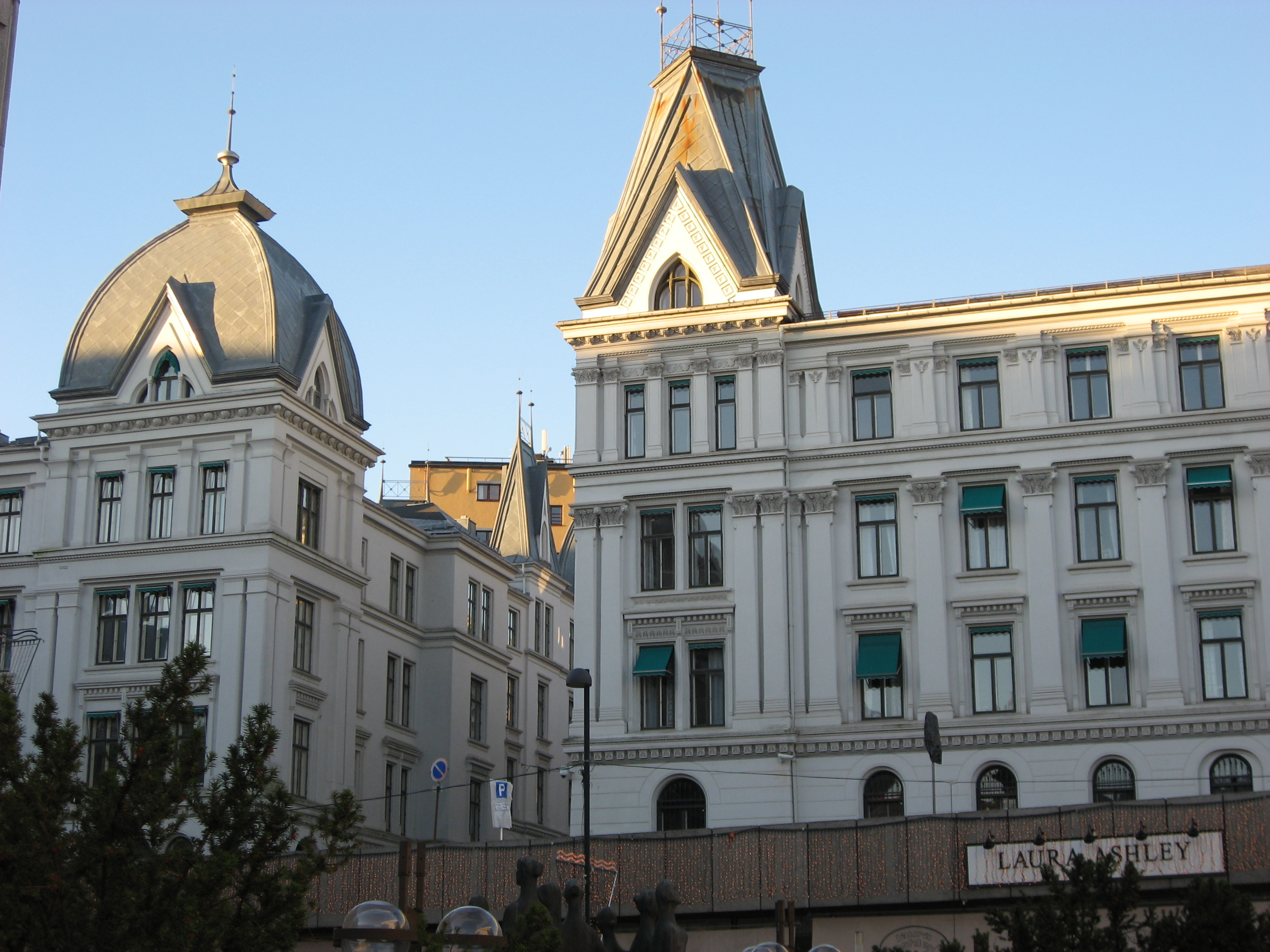 Victoria Terrasse, Oslo, Norway